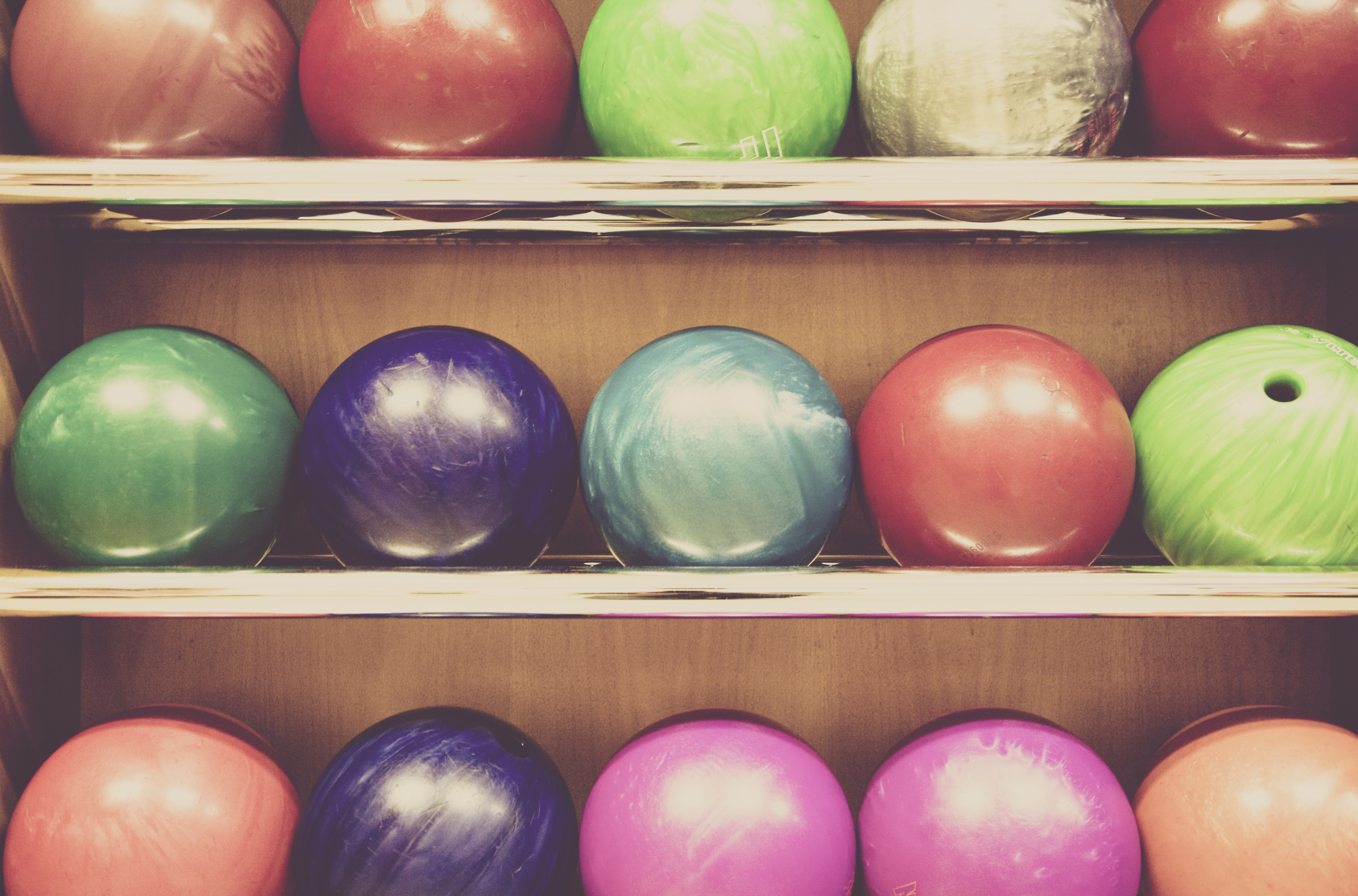 A rack of Bowling balls